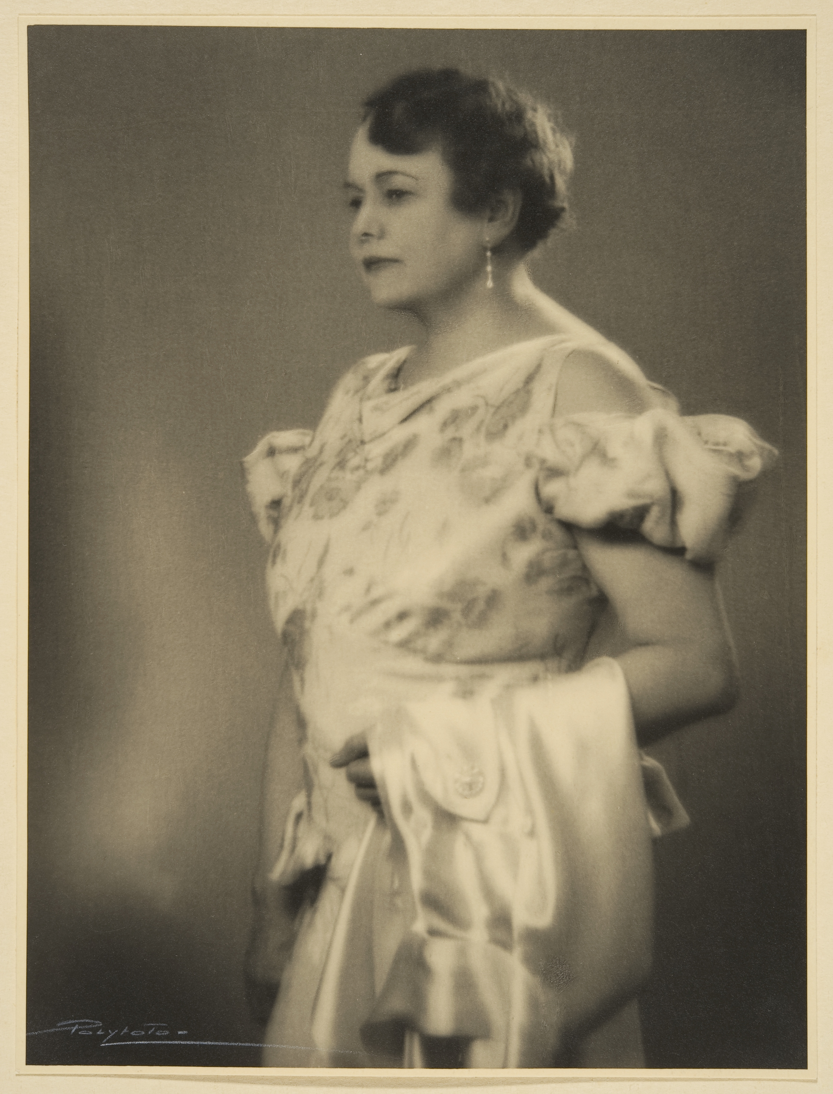 Photograph of the Finnish pianist Sigrid Sundgren-Schnévoigt (1878–1953).